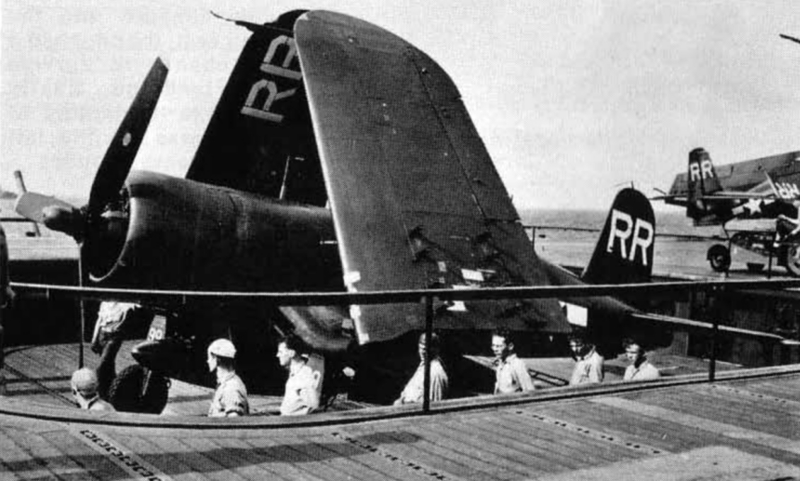 A U.S. Navy FG-1D Corsair of fighter-bomber squadron VBF-88 aboard USS Yorktown (CV-10) at the end of the Second World War. Note the code letters "RR" on the planes, introduced in July 1945 to identify Yorktown´s air group.